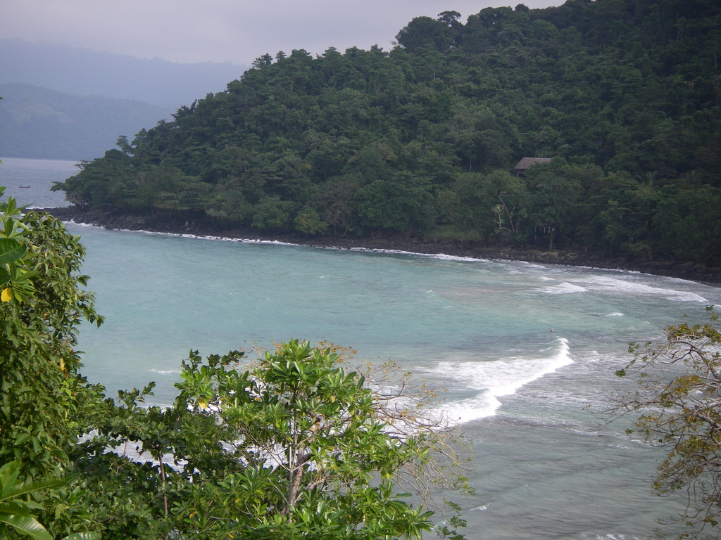 Gapang Beach, Sabang, Aceh